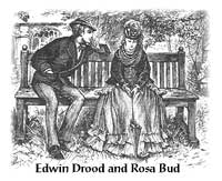 Edwin Drood and Rosa Bud (The Mystery of Edwin Drood, by Charles Dickens)